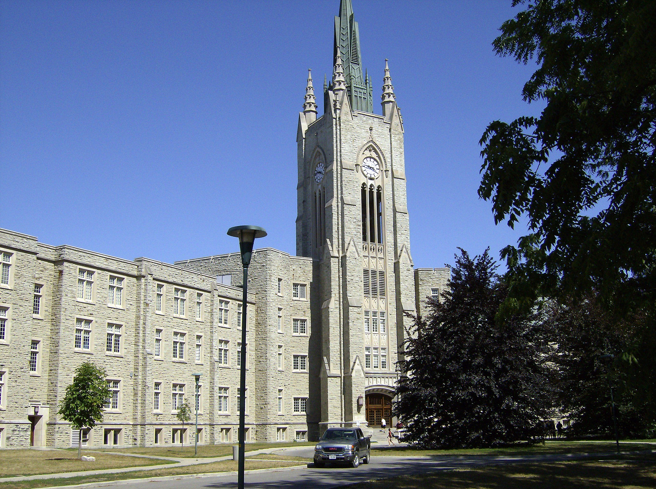 Middlesex Coellege, UWO campus, old home to FIMS